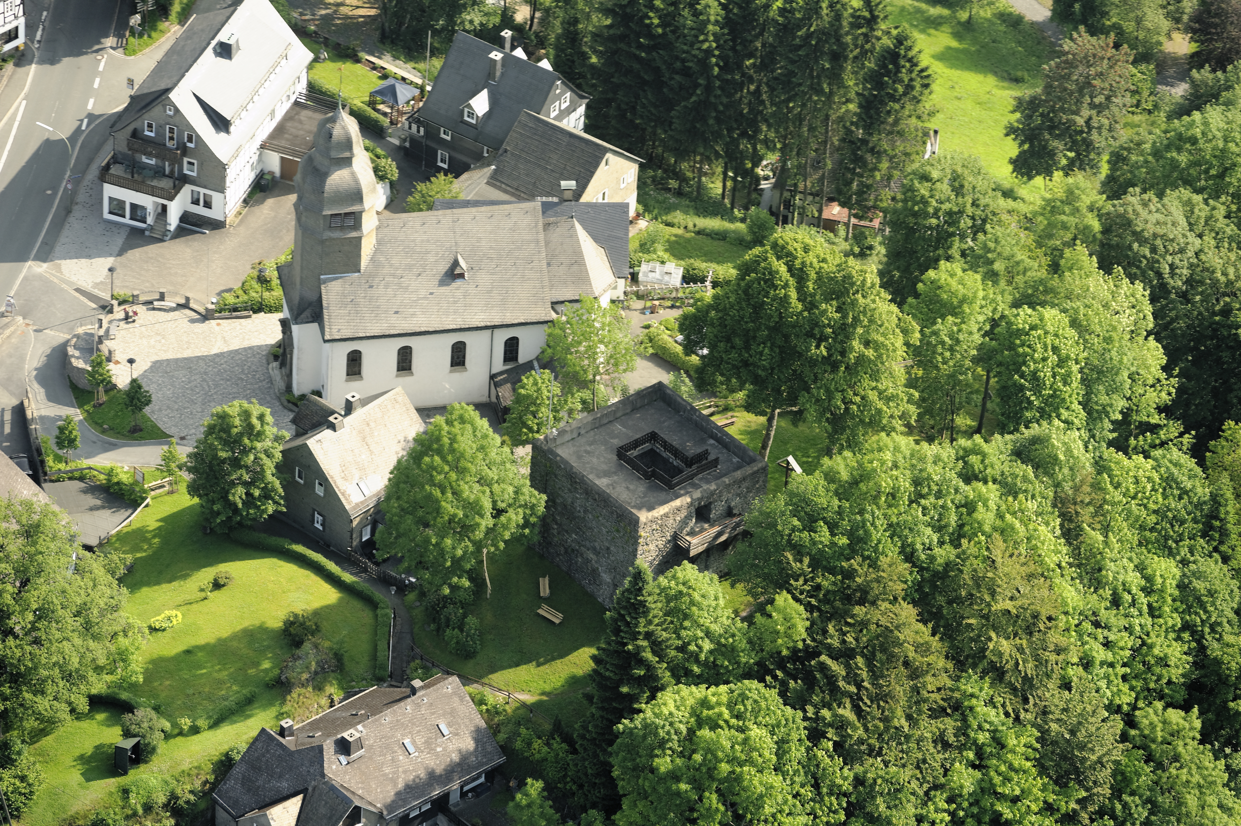 Fotoflug Sauerland-Ost: Schmallenberg-Nordenau, Burg Rappelstein und St.-Hubertus-Kirche The making of this document was supported by the Community-Budget of Wikimedia Germany.